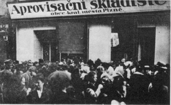 Women demonstrators before warehouse in Pilsen 1918